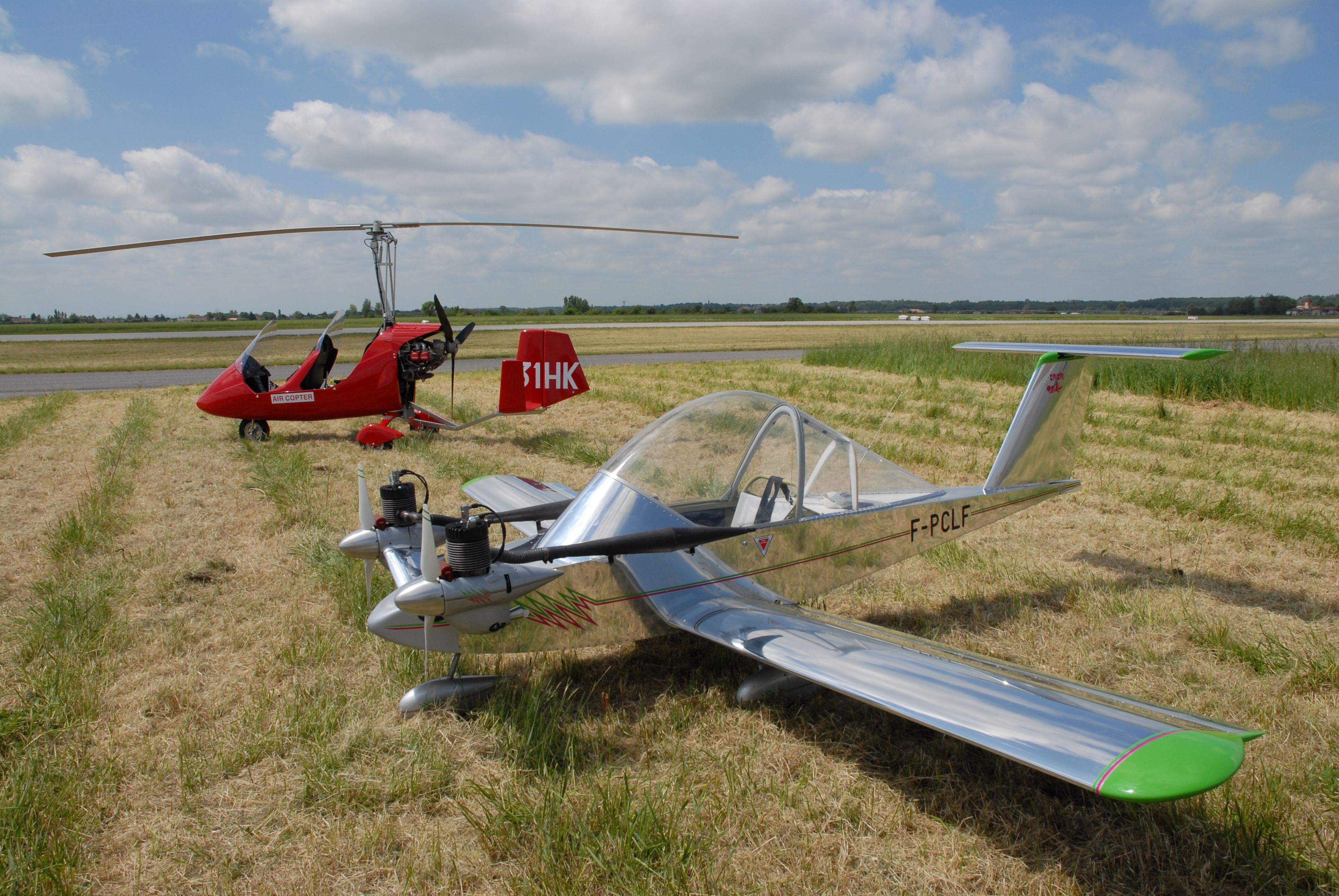 Autogyro MT03 Manufacturer HTC / Auto-Gyro (Germany) Model Autogyro MT03 Type tourism Registration ID 31HK Colomban MC-15 "Cri-cri" Manufacturer (homebuilt) Model Colomban MC-15 "Cri-cri" Type aerobatics Characteristics very light, twin-engined, kitplane, smallest twin-engined aircraft in the world Registration ID F-PCLF Owner Bonnaire Dominique, Jean Marie Based in St Pierre d'Oléron